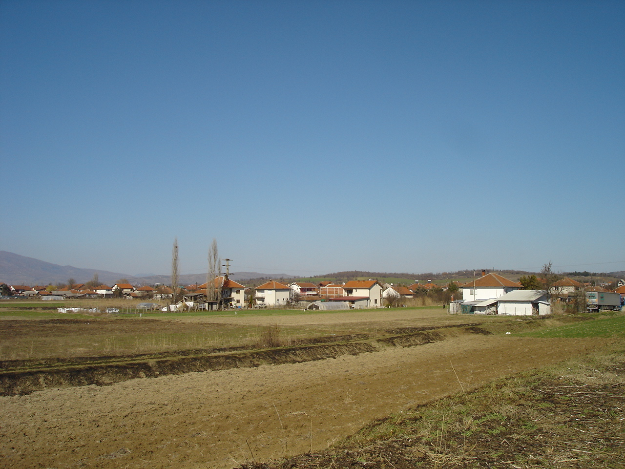 Village of R'žaničino, near Skopje, Macedonia